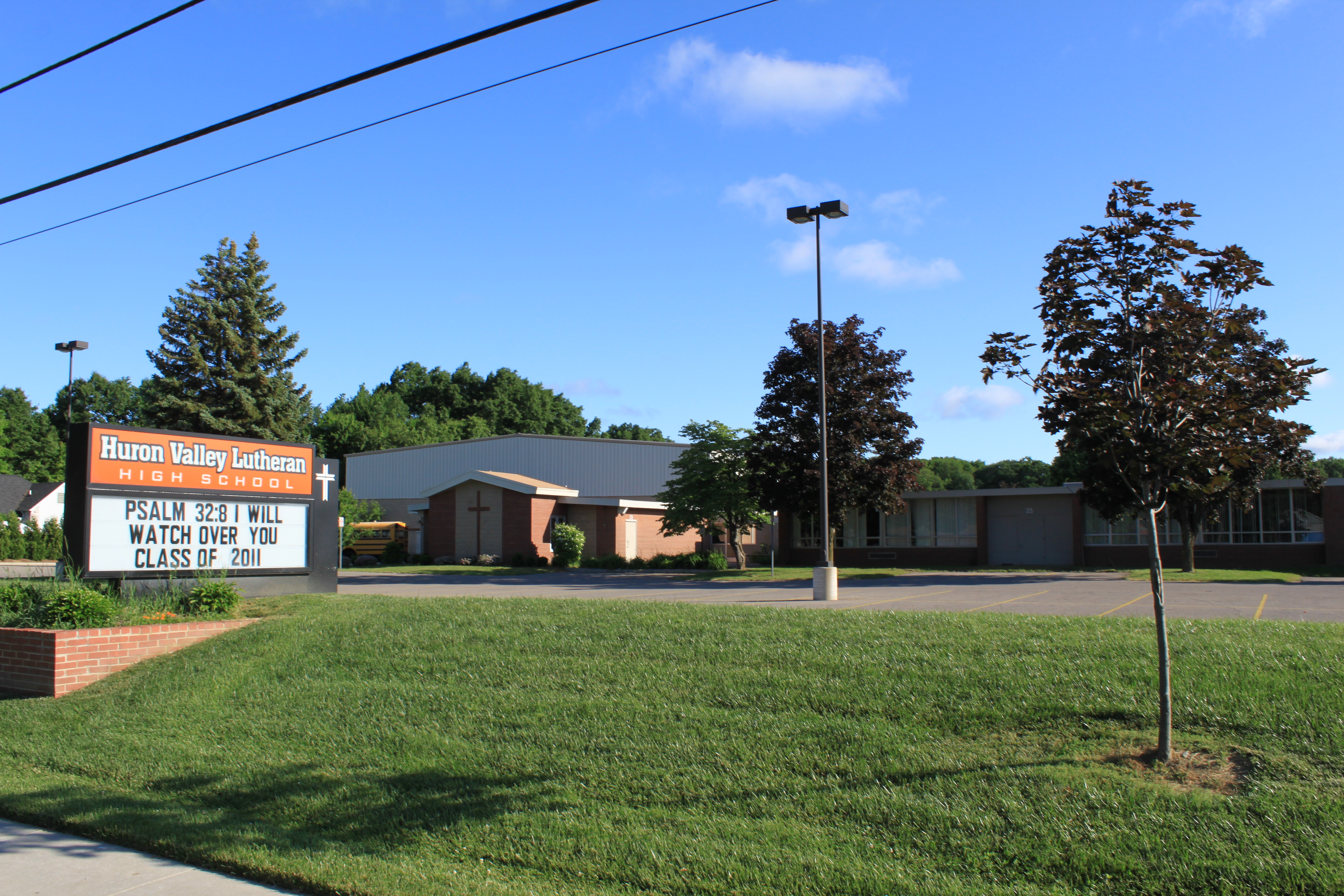 Huron Valley Lutheran High School, 33740 Cowan Road, Westland, Michigan